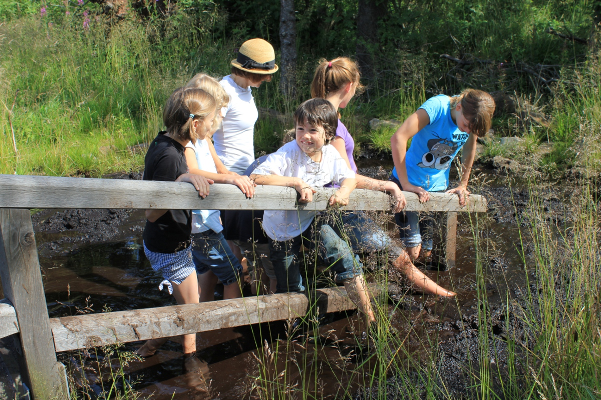 Children in a pool filled with glaur in the Black Moor, near Hausen, Germany (published with oral permission of the photographed people and their parents)